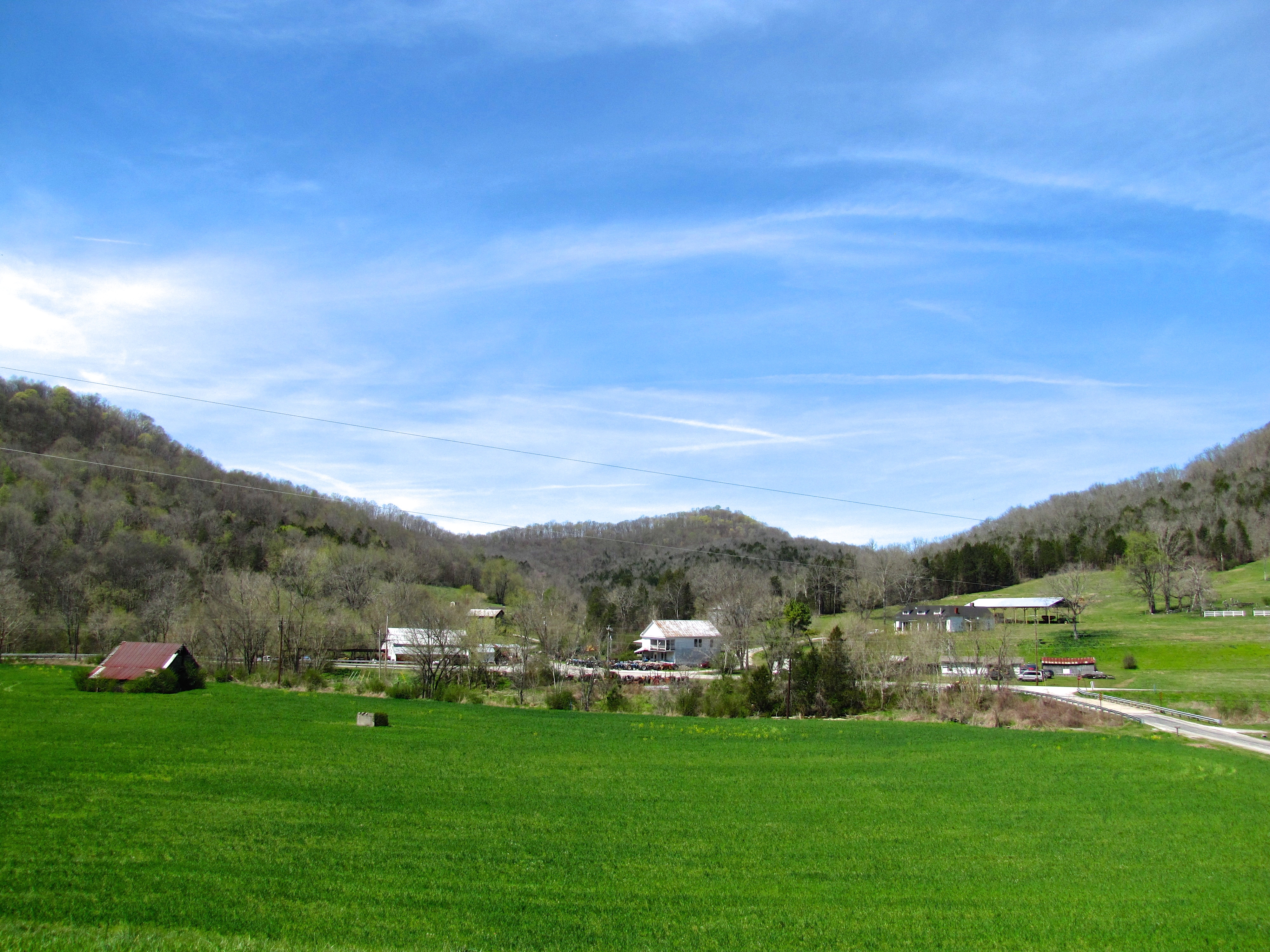 The community of Difficult, Tennessee, United States, viewed looking west from the Defeated Creek Missionary Baptist Church parking lot.